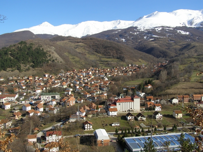 View on Štrpce